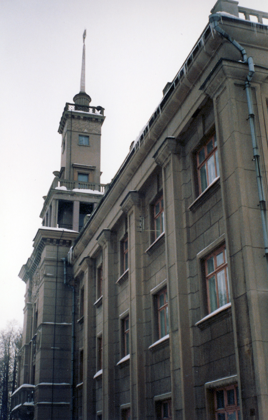 Valery Chkalov Palace of Culture in the town of Chkalovsk, Nizhny Novgorod Oblast (built in 1940)